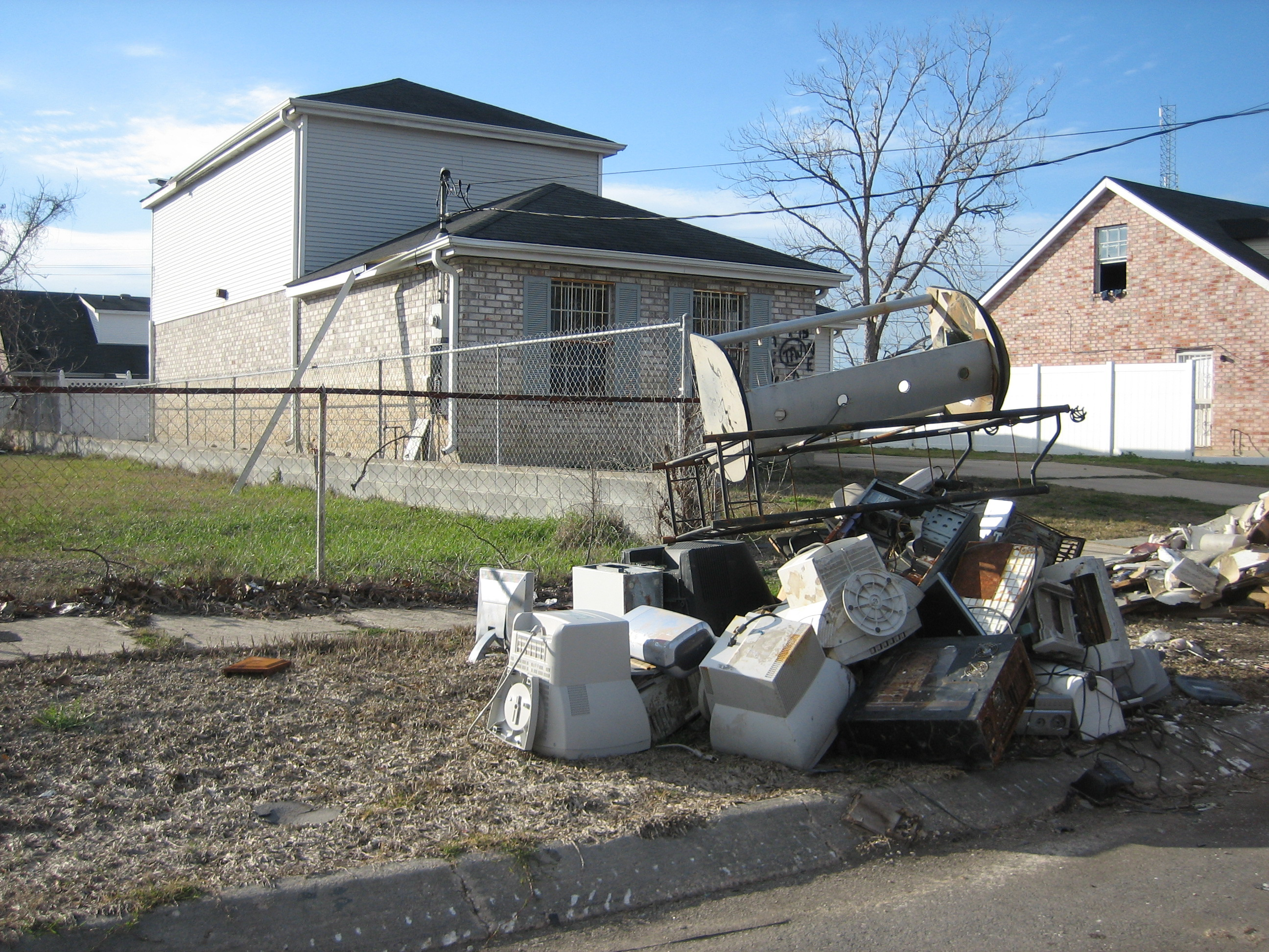 New Orleans after Hurricane Katrina: Residential street in formerly flooded out Desire neighborhood has computer equipment in pile of trash on curb. Photo by Infrogmation of New Orleans